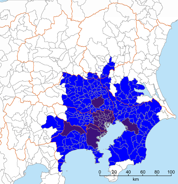 Map of the Kanto Major Metropolitan Area, one of the various definitions of Tokyo/Kanto. The definition is from Japan Statistic Bureau official website. [1]